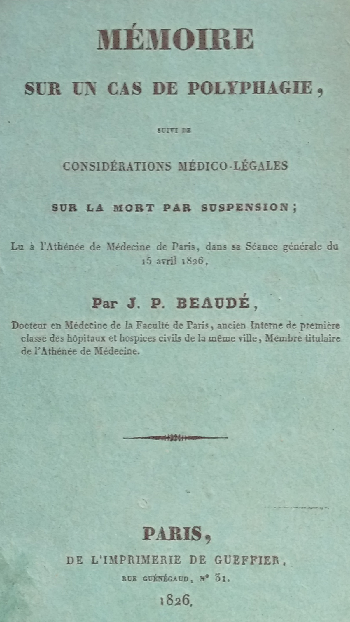 Book cover